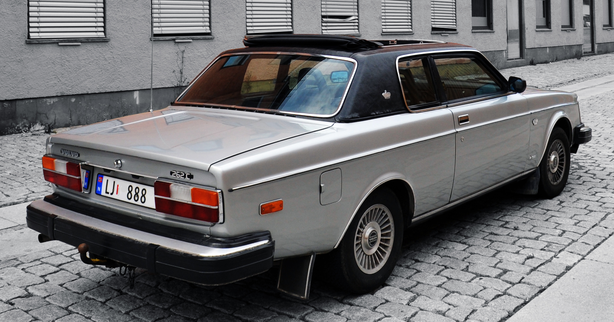 Rear view of a 1978 Volvo 262 Coupé Bertone in Norway. This car has the large Webasto sunroof.